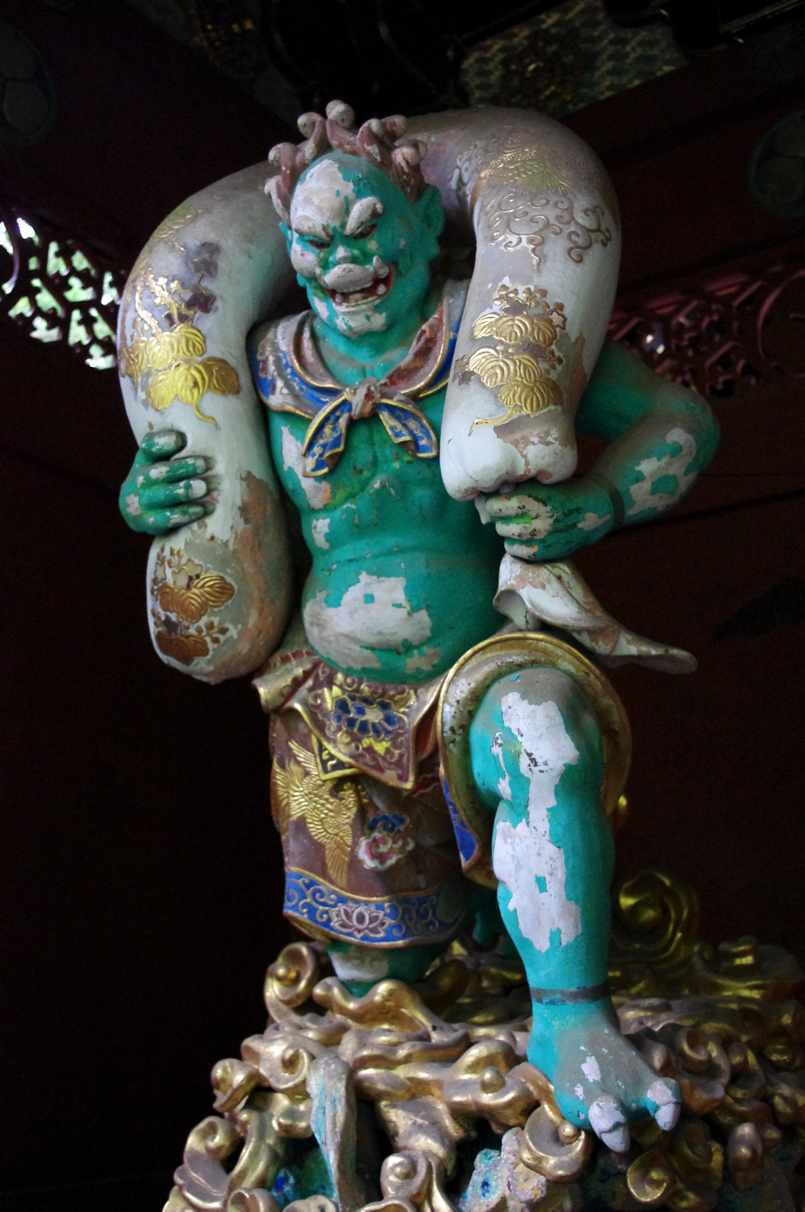 Fūjin at Taiyū-in Reibyō, Nikkō, Japan.